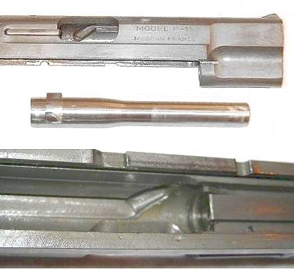 Slide groove and Barrel of the MAB PA-15.